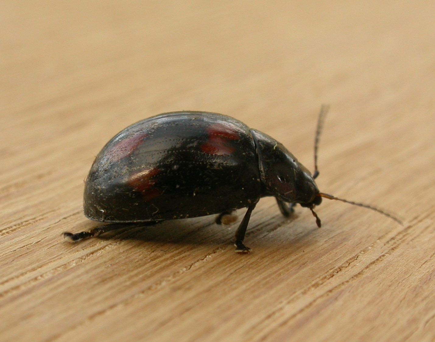 Paropsisterna beata (Newman), to MV light, Aranda, ACT, 14/15 November 2008